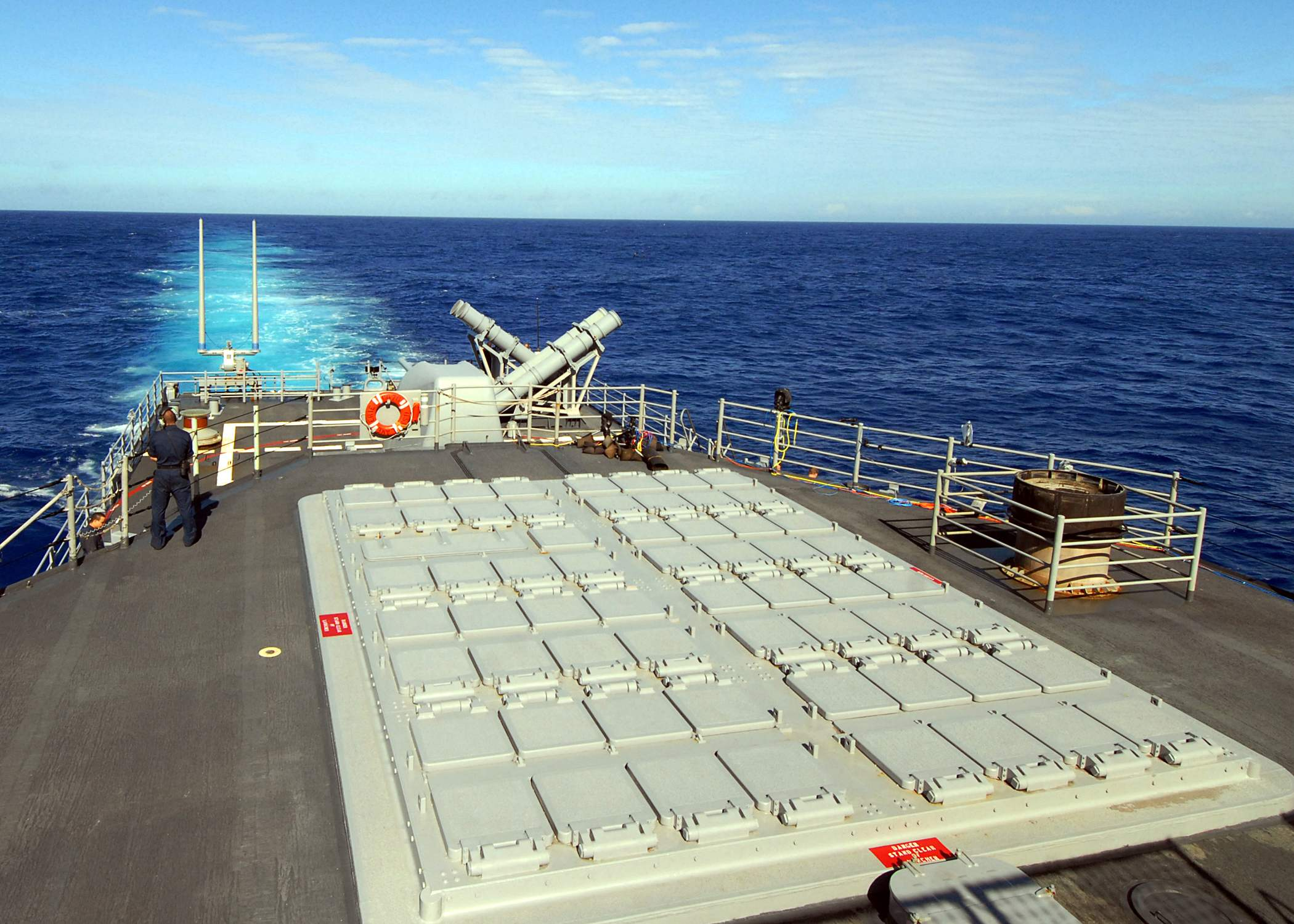 080218-N-5476H-050 PACIFIC OCEAN (Feb. 18, 2008) Seaman Robert Paterson, of Norgo, Cal., stands watch next to the aft vertical launch missile platform on the Fantail while underway on the guided-missile cruiser USS Lake Erie (CG 70). Lake Erie is conducting operations off the coast of Hawaii in preparation for a ship's Board of Inspection and Survey. U.S. Navy photo by Mass Communication Specialist 2nd Class Michael Hight (Released)